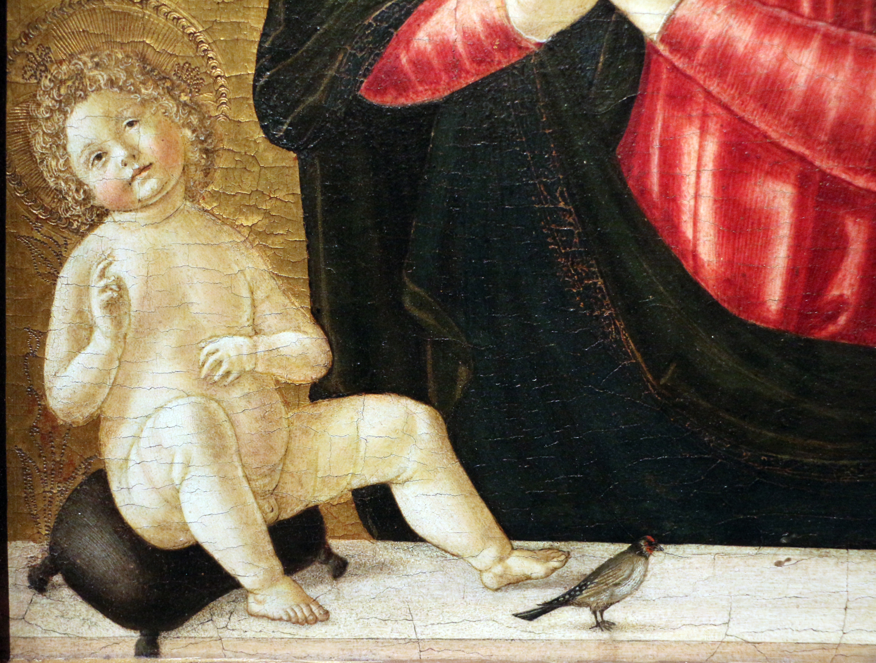 Italian paintings in the Cleveland Museum of Art